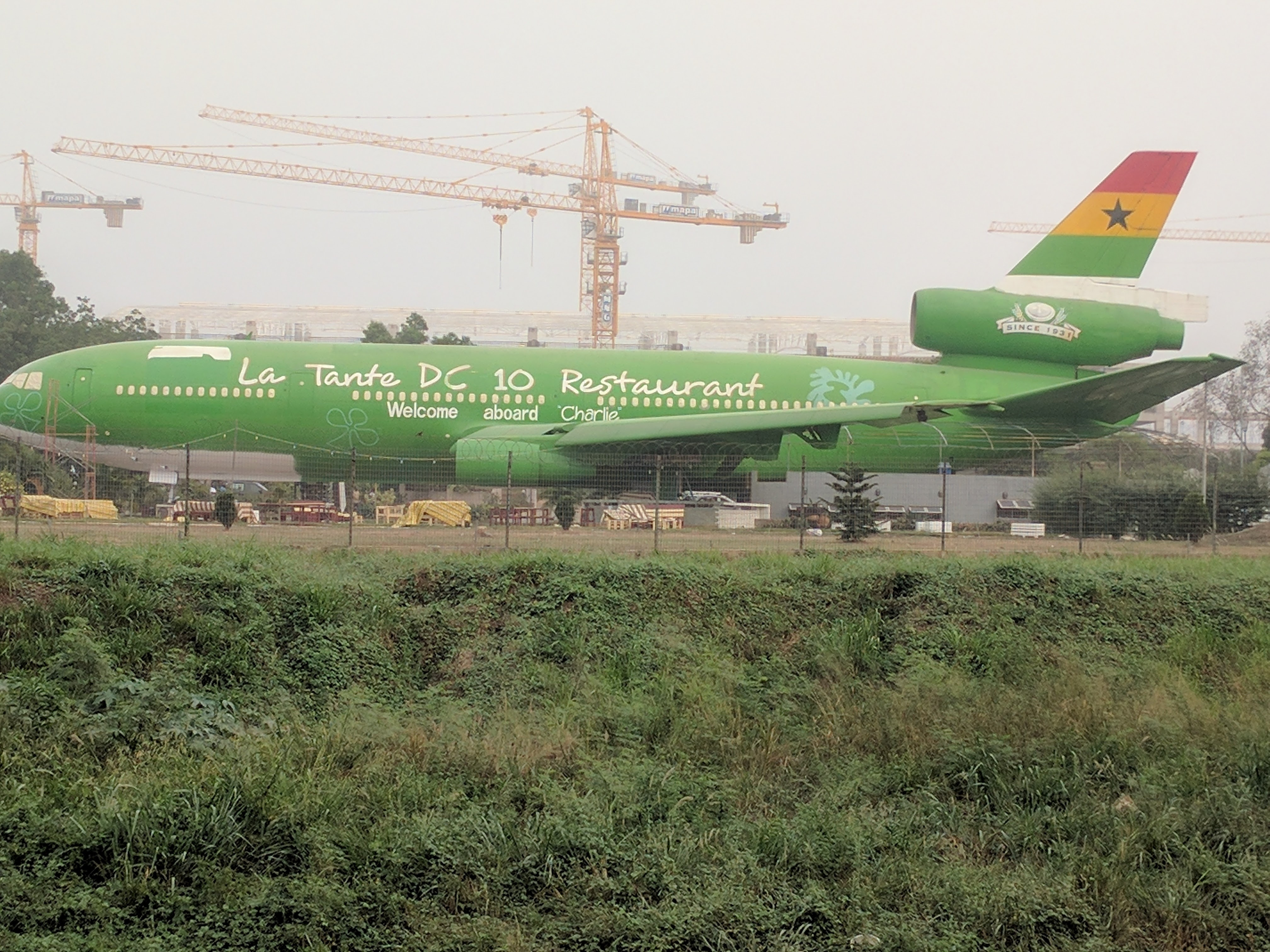 La Tante DC10 Restaurant is an iconic restaurant that was created out of the remains of the last aeroplane of the Ghana Airways.